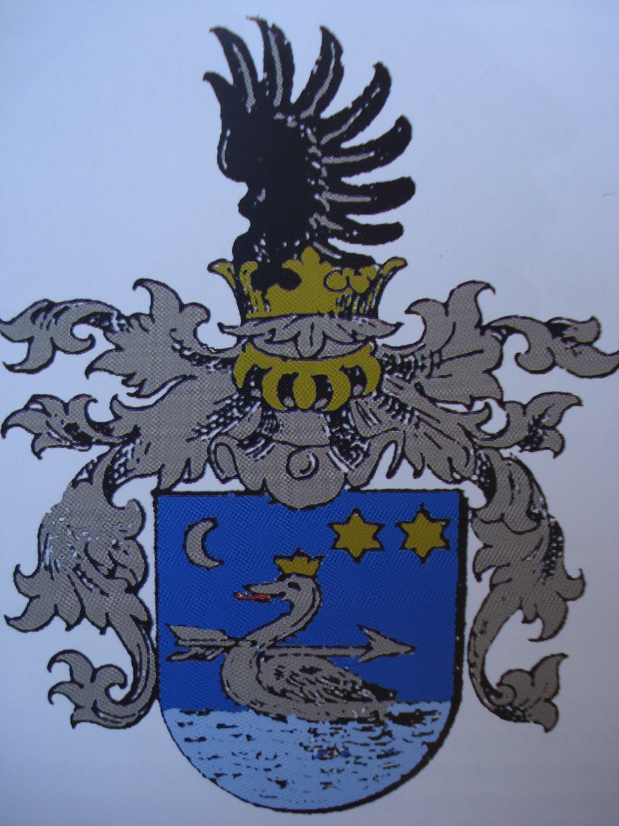 Coat of arms of the Gusić noble family (Croatia)